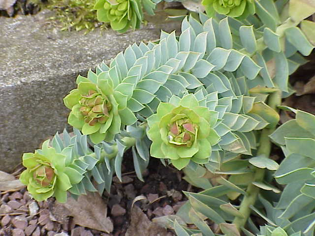 Species: Euphorbia myrsinites Family: Euphorbiaceae Image No. 3